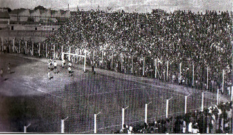 Stadium of Vélez Sársfield.